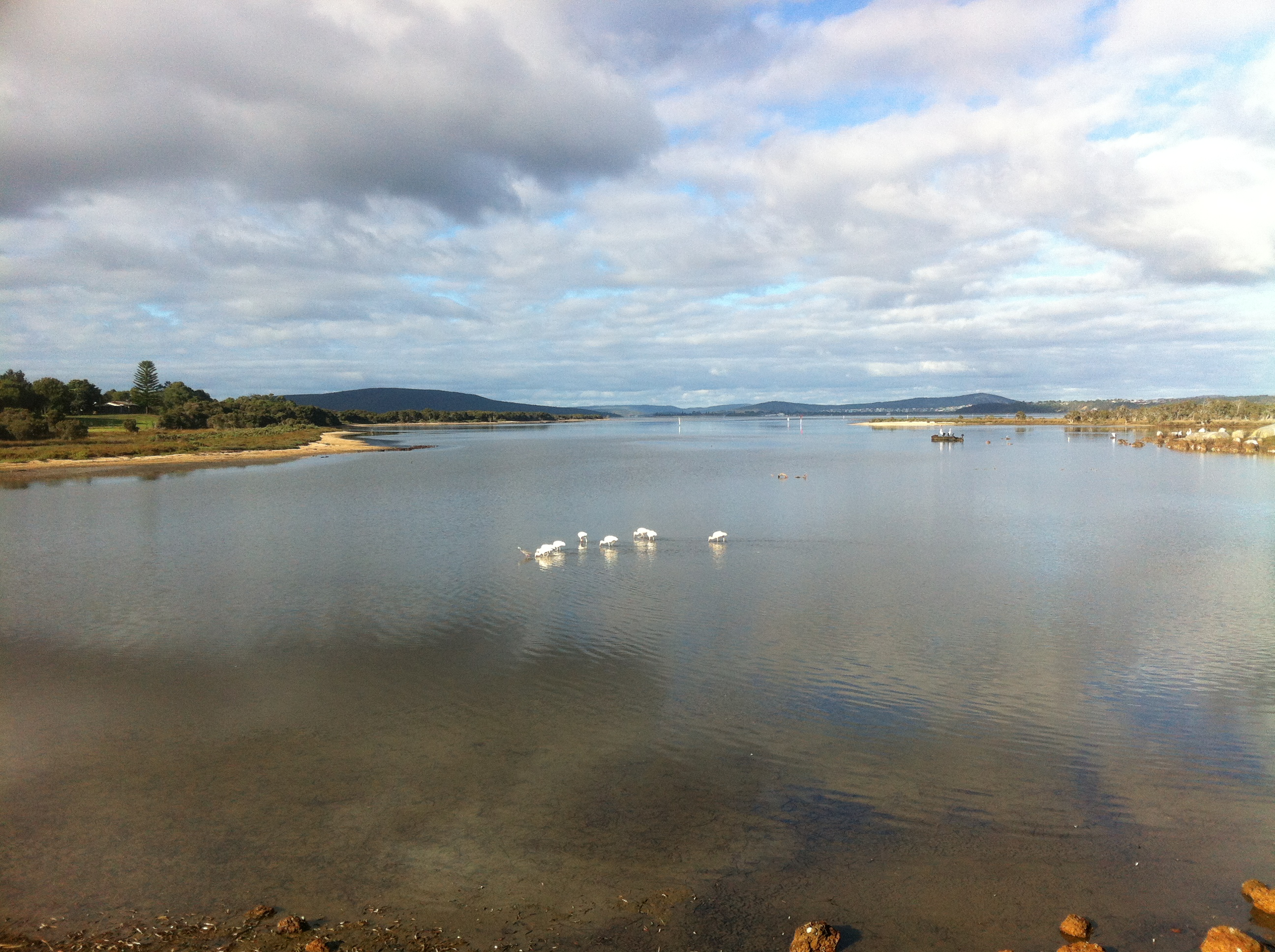 Mouth of Kalgan River into Oyster Harbour taken from Lower Kalgan Bridge